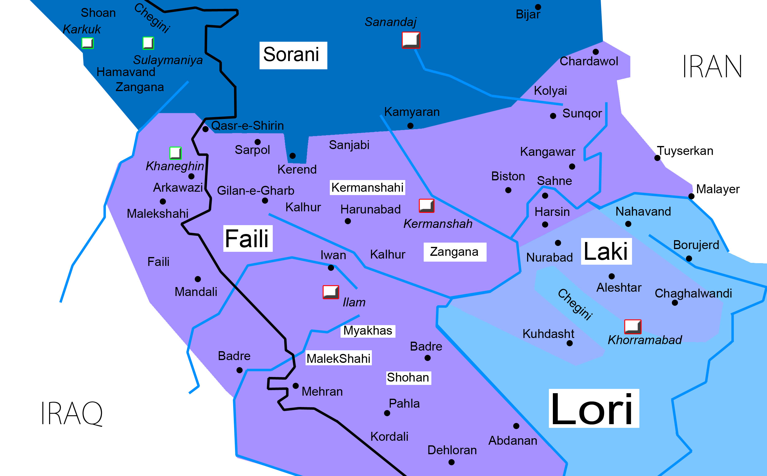 SOUTHERN KURDISH AREA